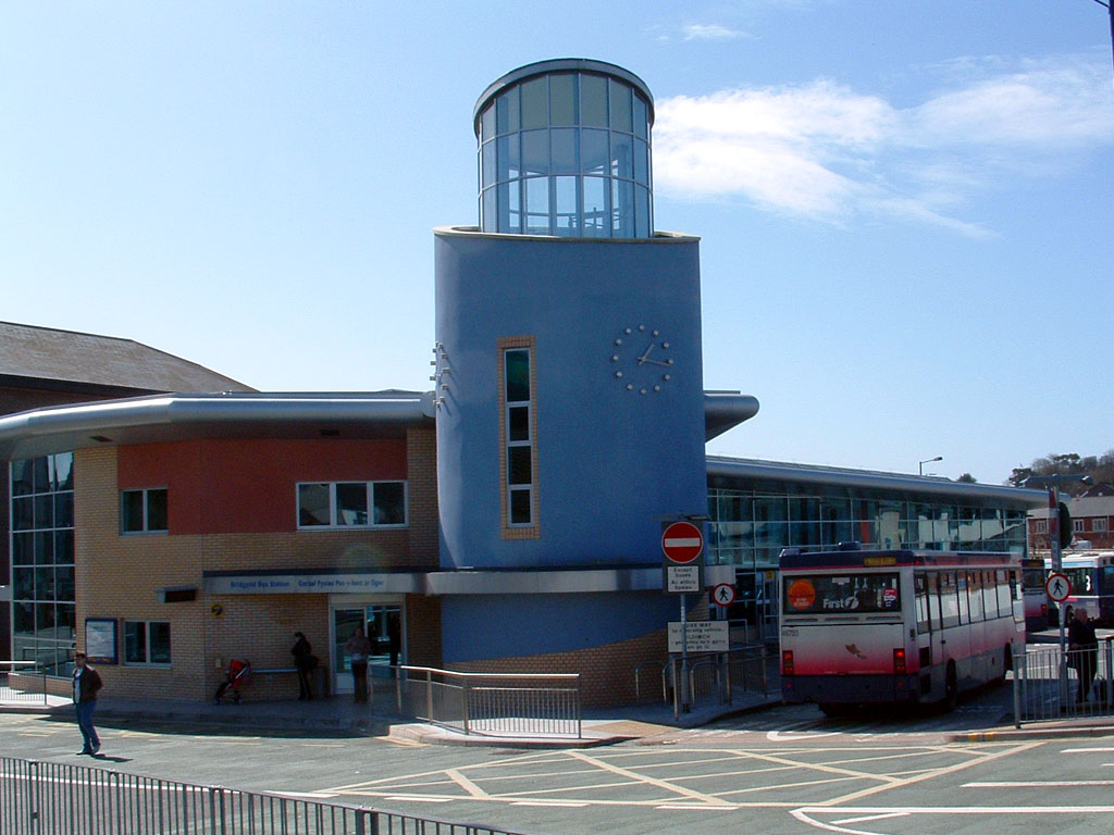 Bridgend's New Bus Station 2002